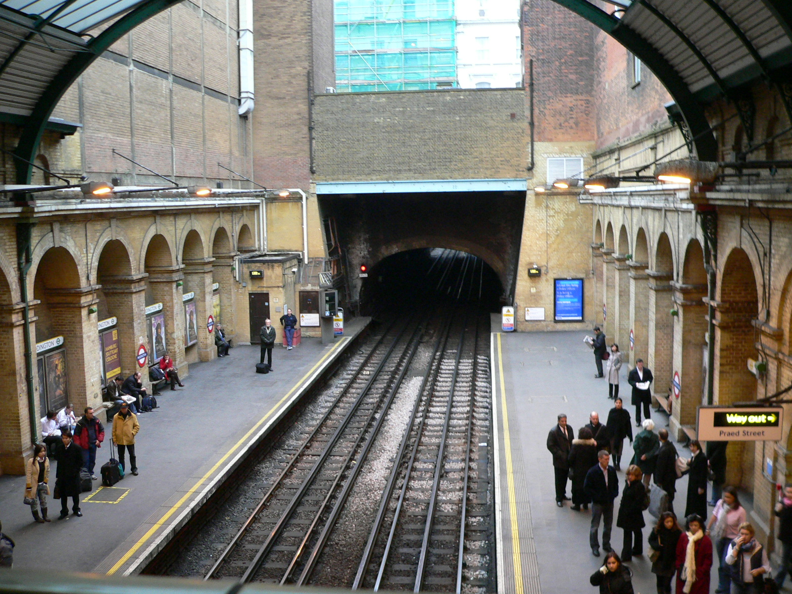 The Circle and District Line tube station at Paddington station (Praed Street), viewed from the footbridge from the mainline station to the southbound/anticlockwise (inner rail) platform.